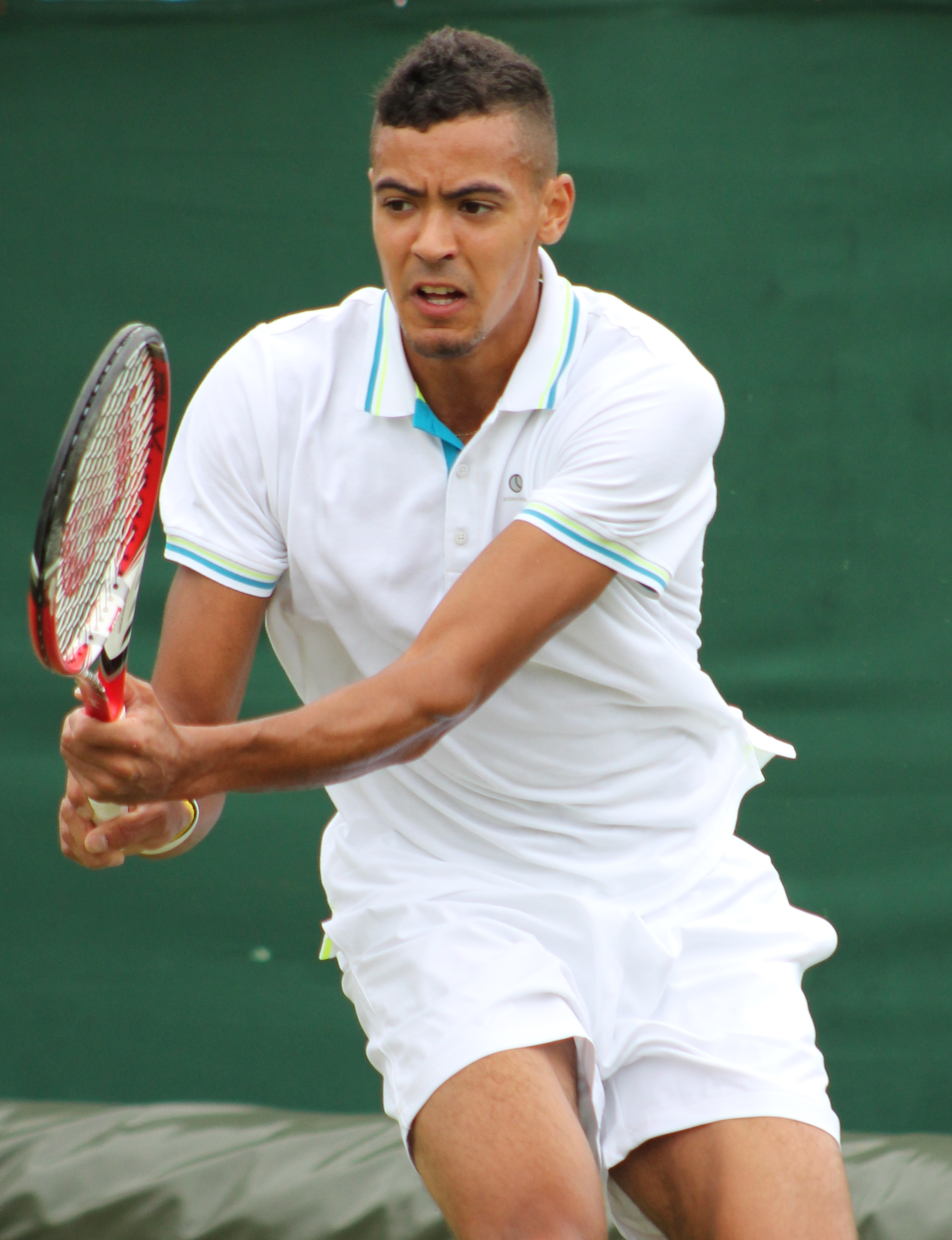 Rice WMQ14 (6)